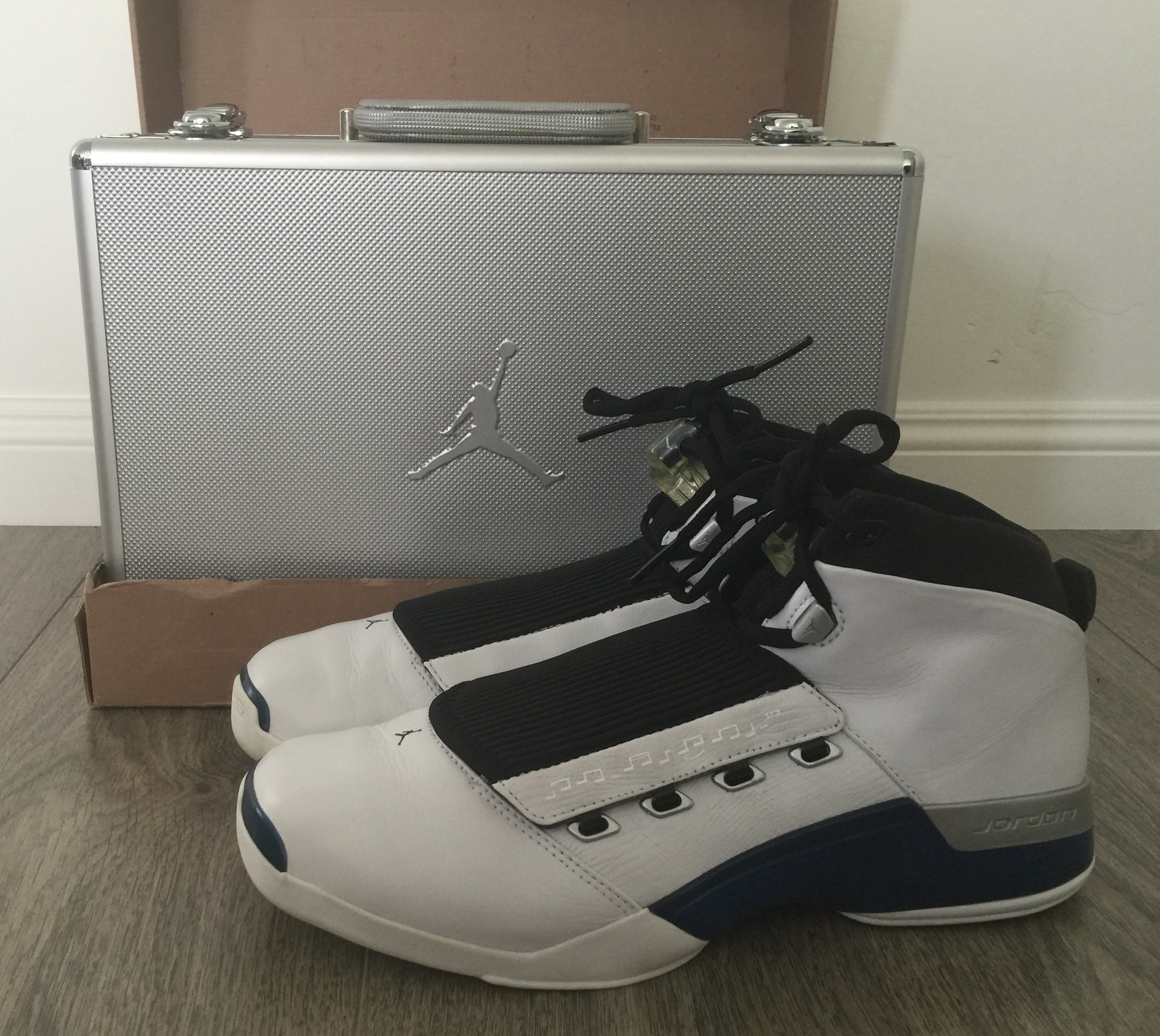 Nike Air JOrdan XVII, (Wizards Colorway)